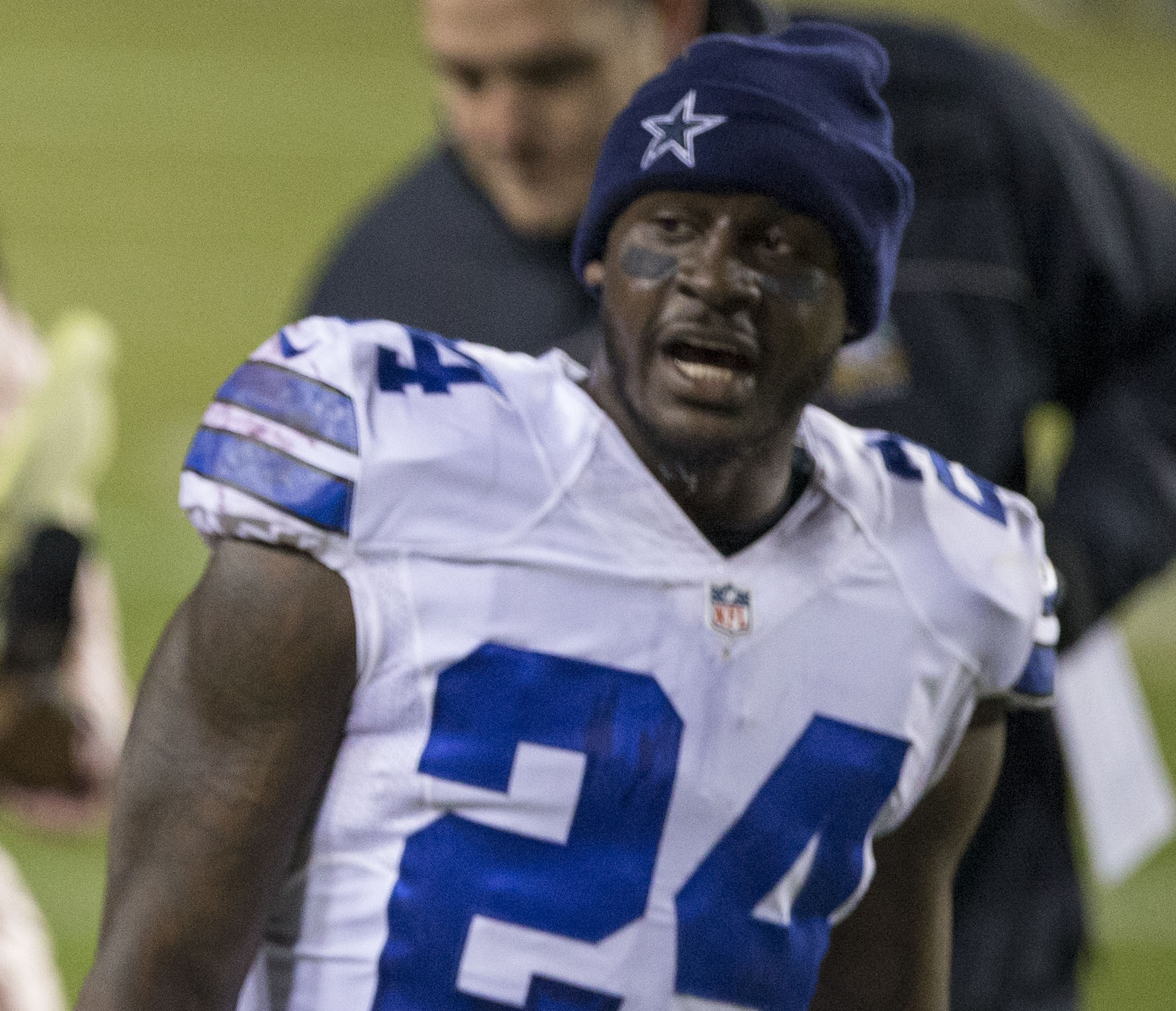 Dallas Cowboys cornerback, Morris Claiborne, playing against the Washington Redskins on December 7, 2015.